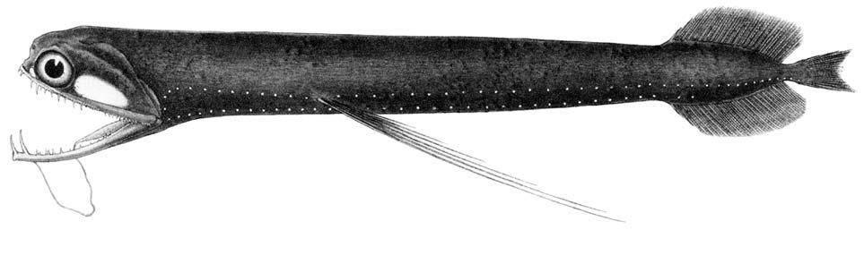 Alcock’s 1899 rendering of Photostomias atrox (Alcock, 1890).